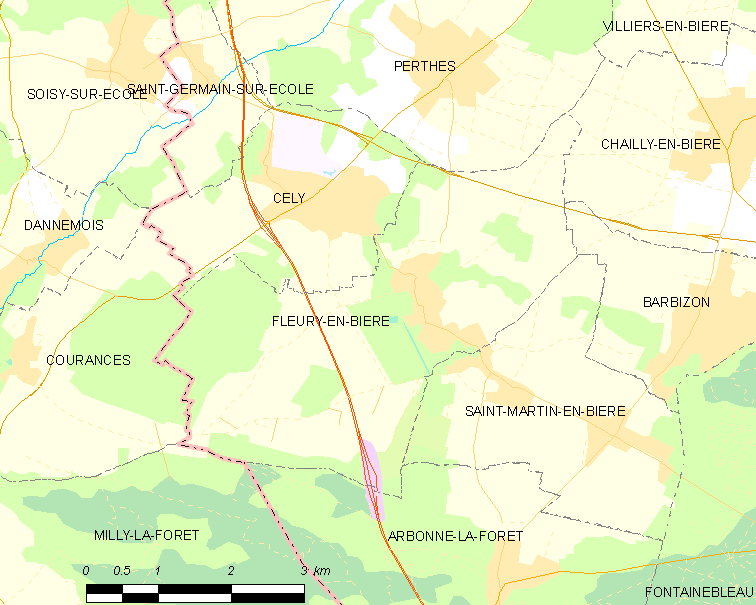 Map of French municipality Fleury-en-Bière